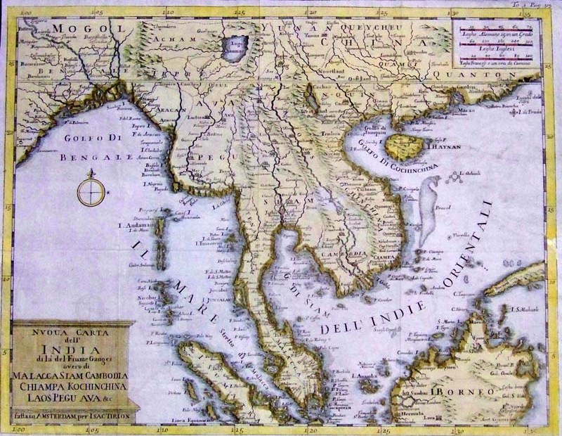 Hand colored copper engraved map titled, "Nvoua Carta dell' India di la' del Fiume Ganges overo di Malacca Siam Cambodia Chiampa Kochinchina Laos Pegu Ava & c.". Map shows Indochina and Southeast Asia with the Bay of Bengal, Singapore, Sumatra, Borneo, and other cities. Map published in Amsterdam by Isac Tirion, 1750.